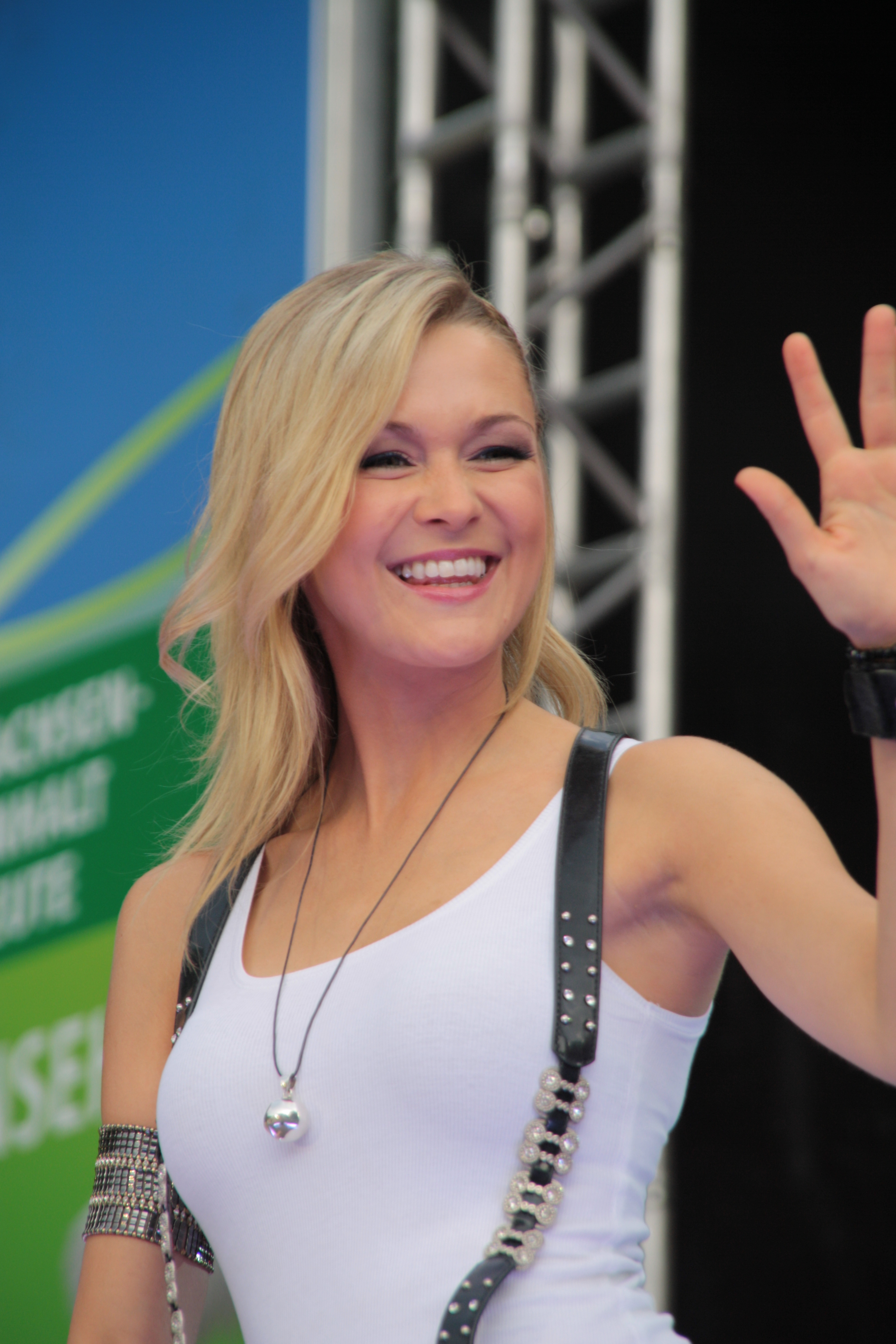 Linda Hesse at MDR Sommertour 2013 in Freyburg